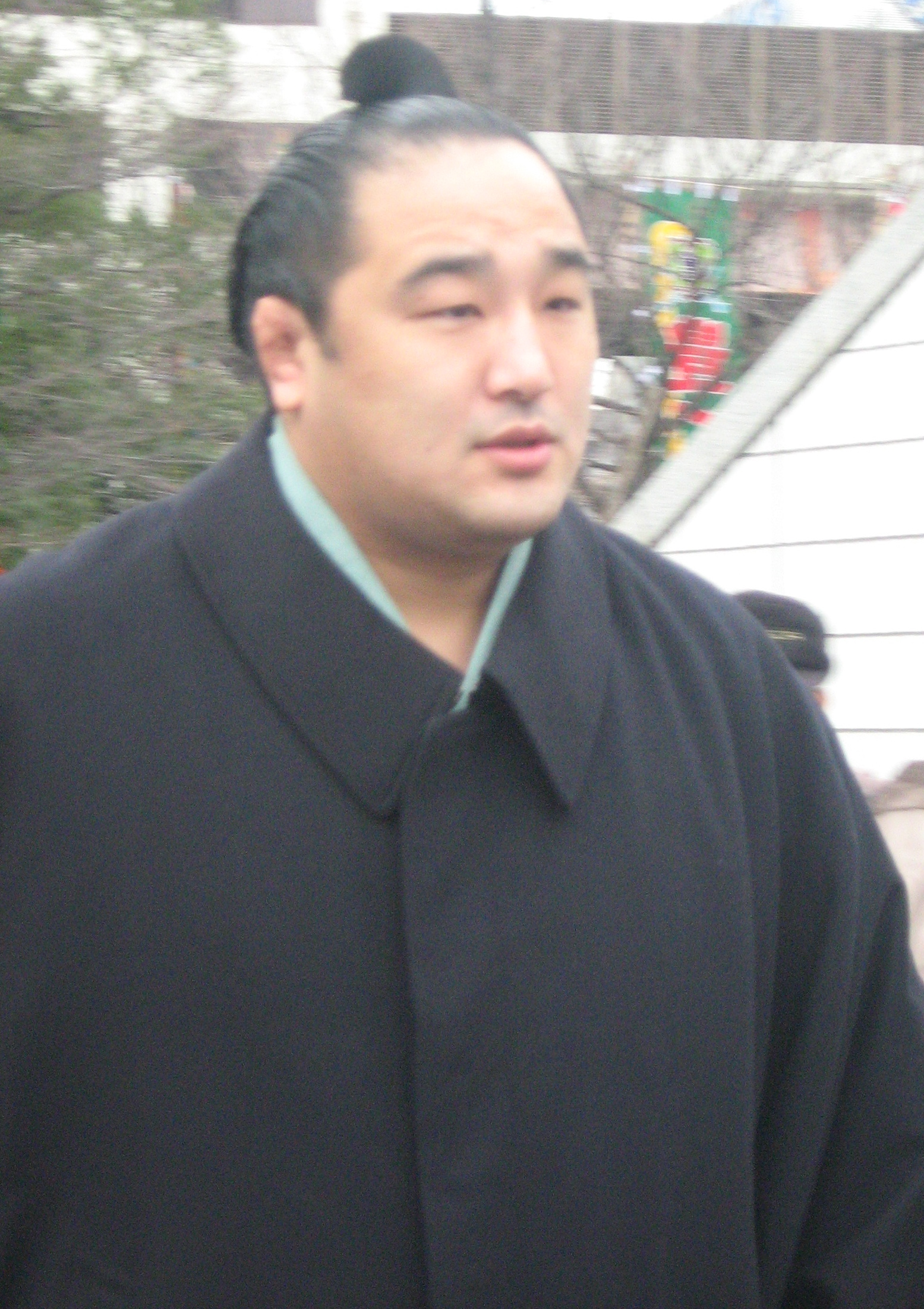 This is a photograph I took at a recent sumo tournament that I release the rights of. User:FourTildes 09:17, 31 May 2008 . . FourTildes . . 1,555×2,203 (1.36 MB)